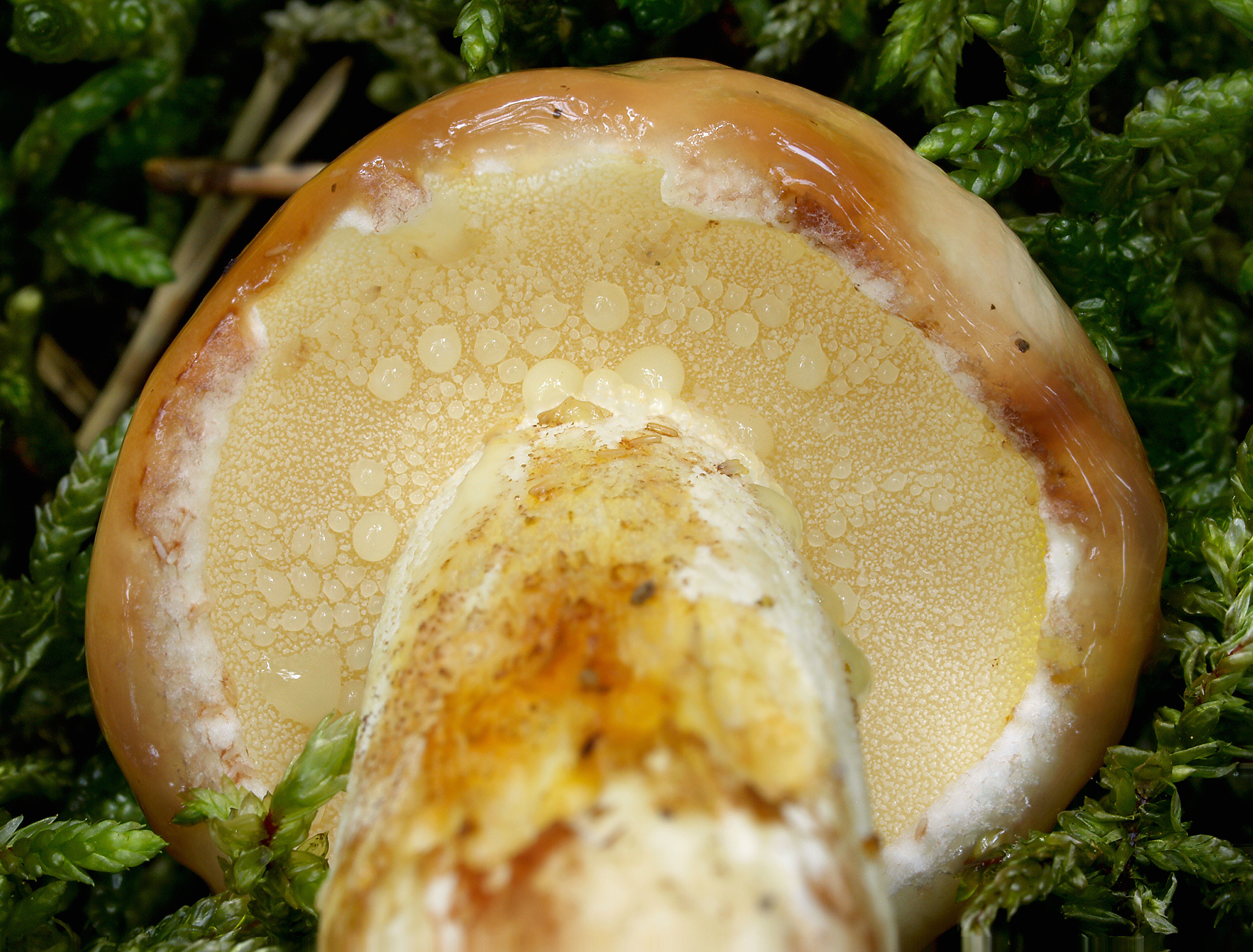 Weeping Bolete (Suillus granulatus)